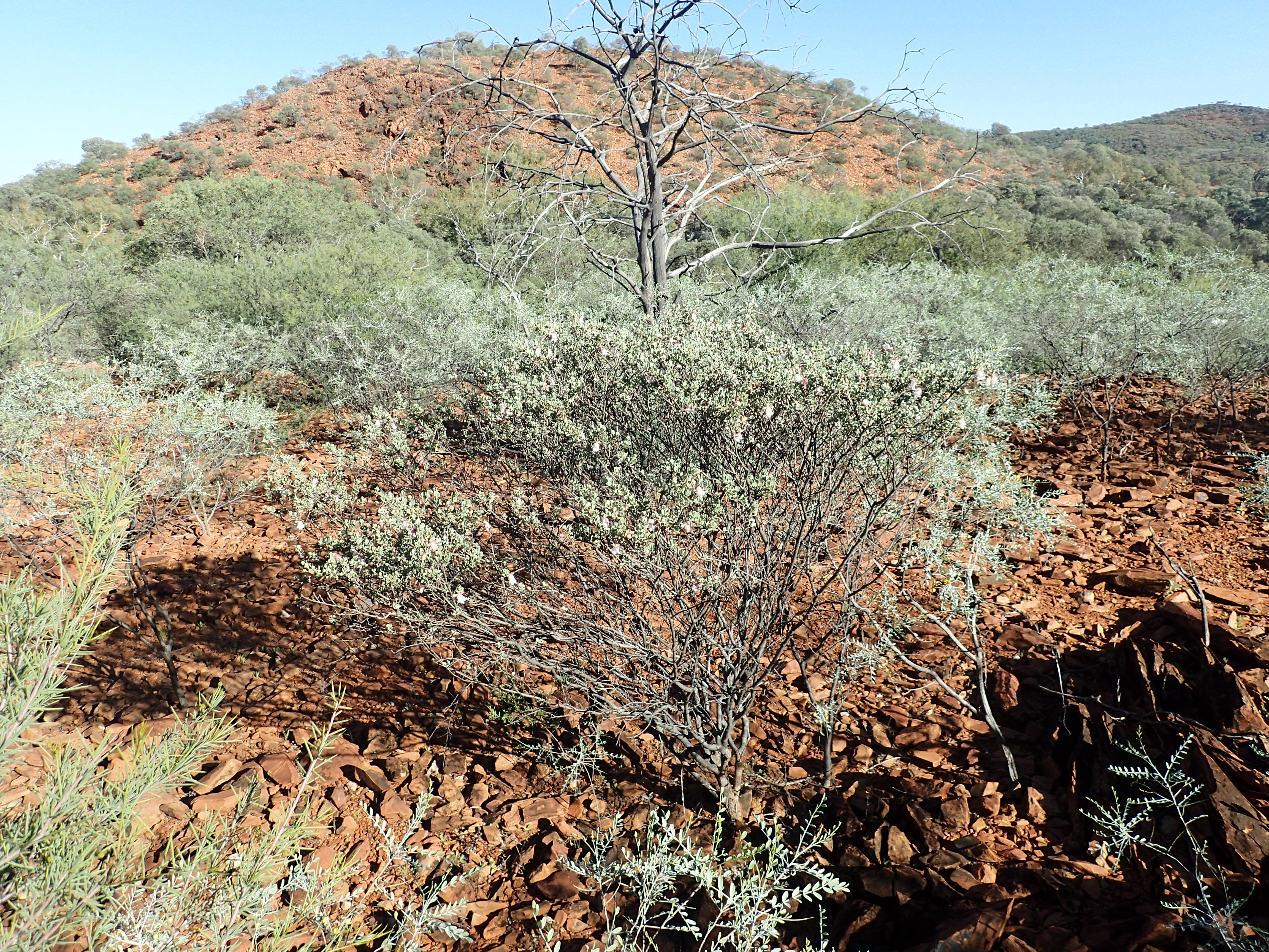 Eremophila reticulata growing 22km north of "Dairy Creek"